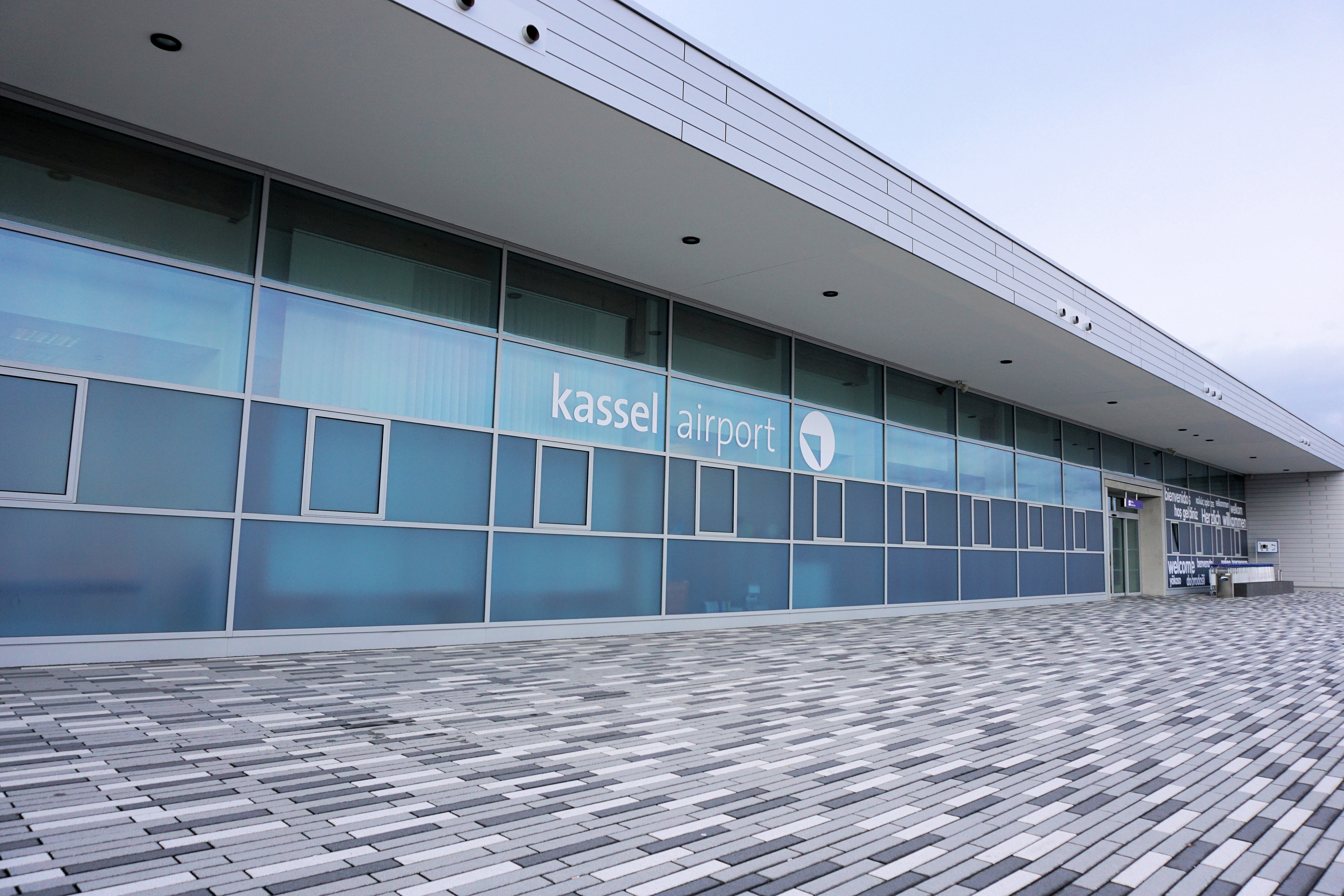 Kassel airport